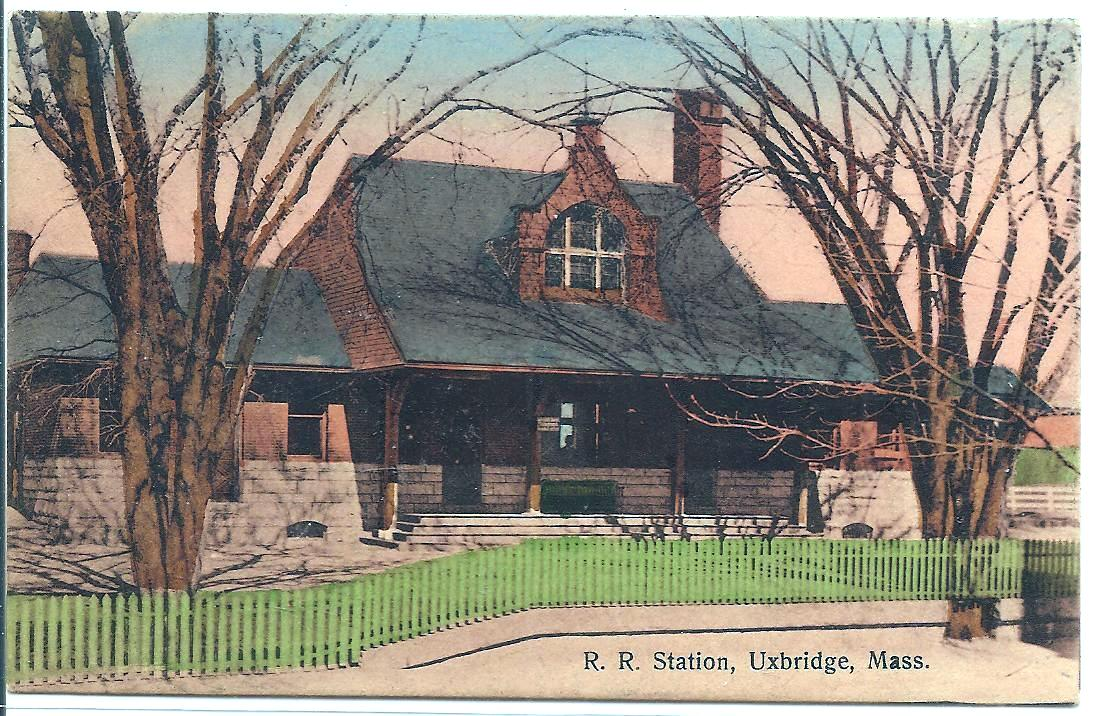 Uxbridge station on an early divided back postcard